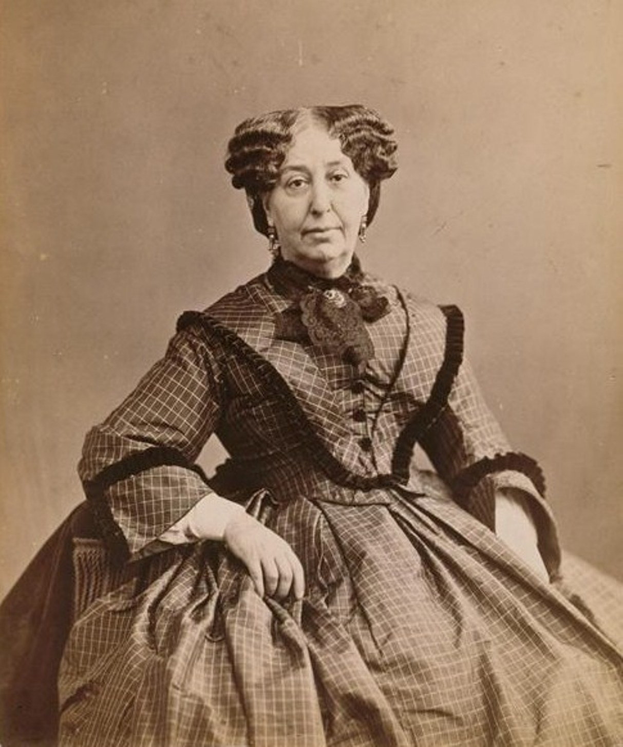 Amantine-Lucile-Aurore Dupin (1 July 1804 – 8 June 1876), best known by her pseudonym George Sand, was a French novelist and memoirist.